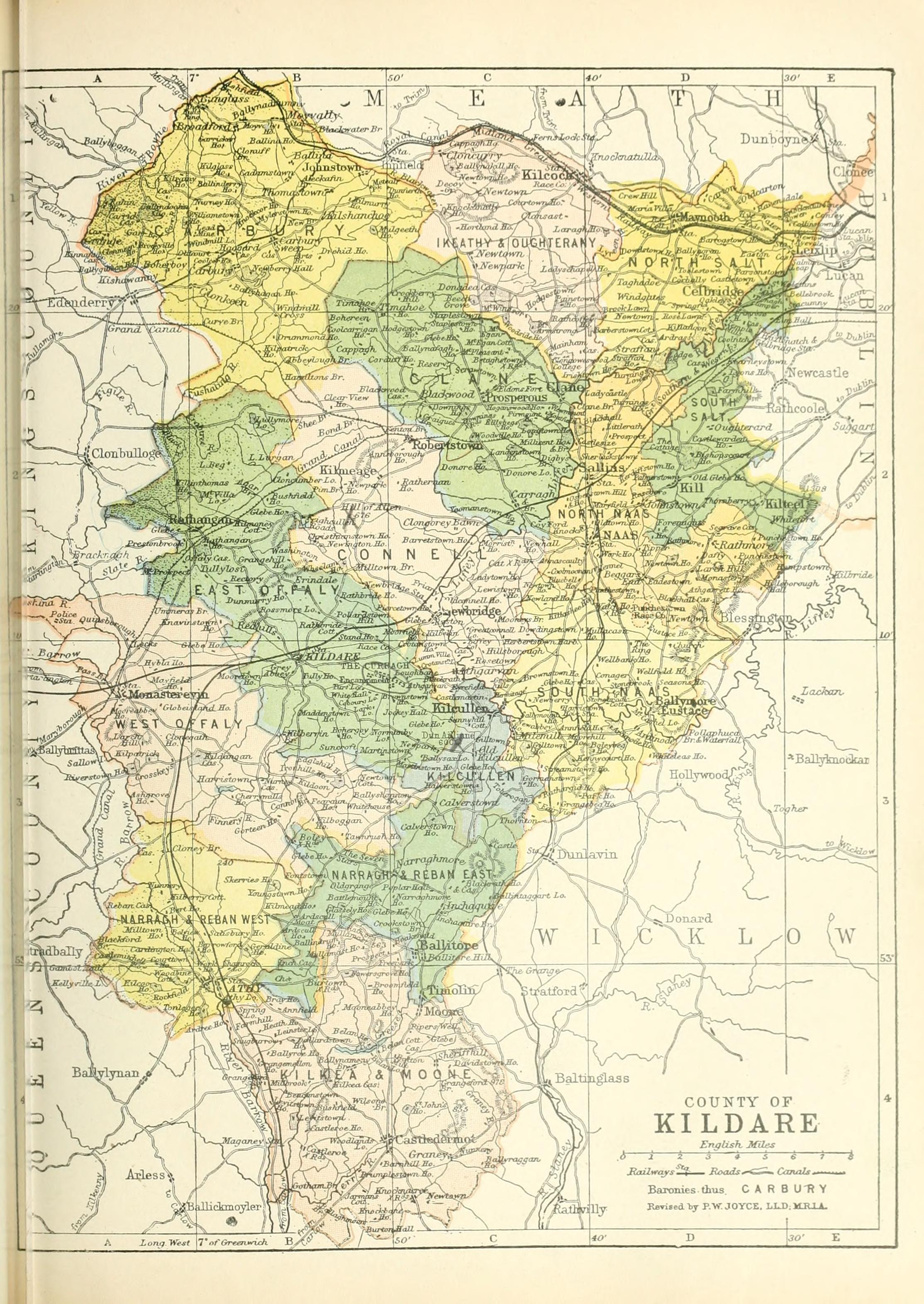 Map of the baronies of County Kildare in Ireland; taken from Atlas and cyclopedia of Ireland, p.156